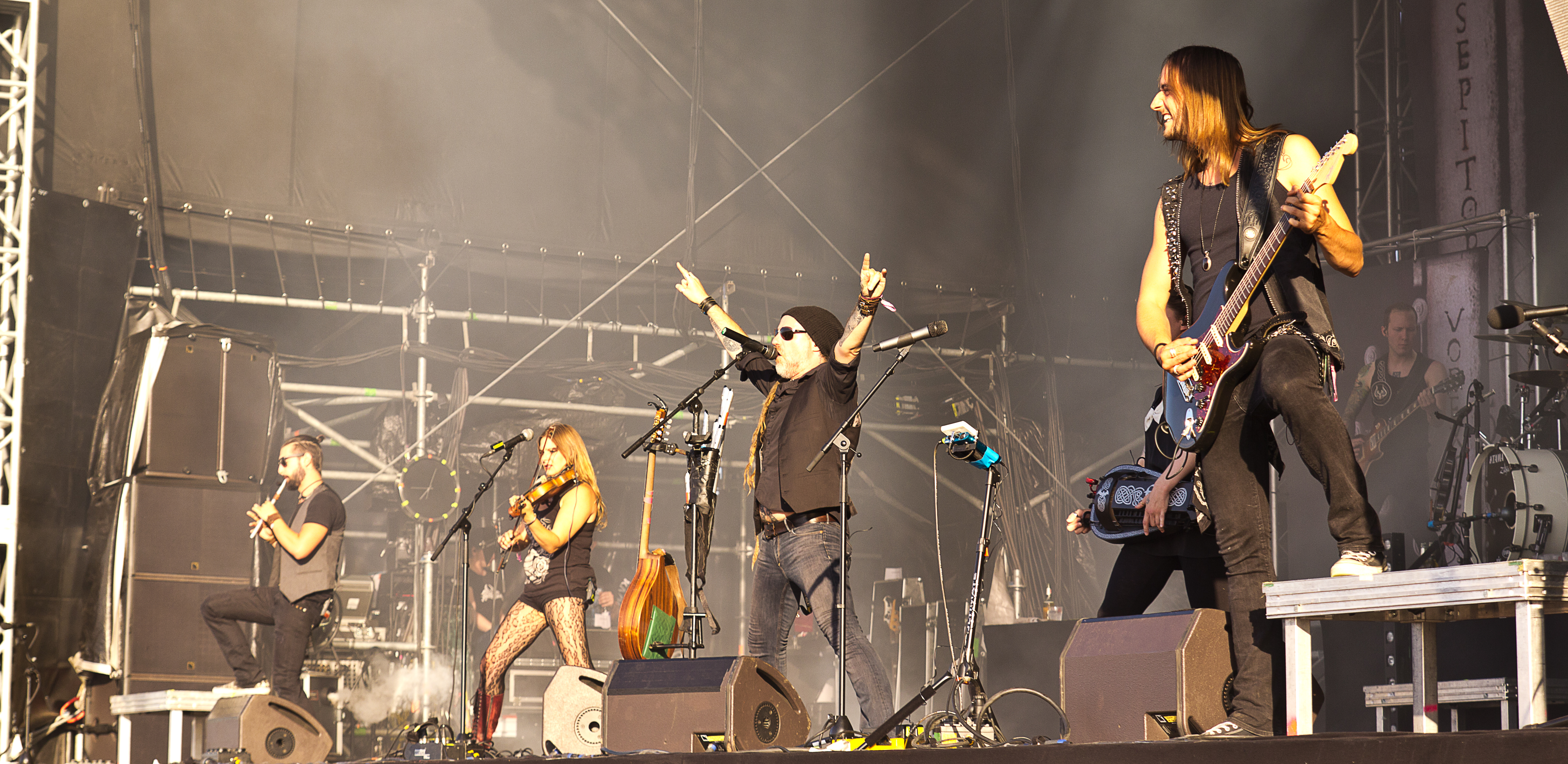 The Swiss pagan metal band Elveitie at the Rockharz Open Air 2015 in Ballenstedt/Germany.